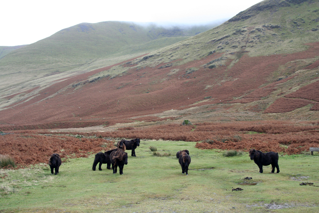 A herd of ponies near Roundhouse near to Mosedale, Cumbria, Great Britain